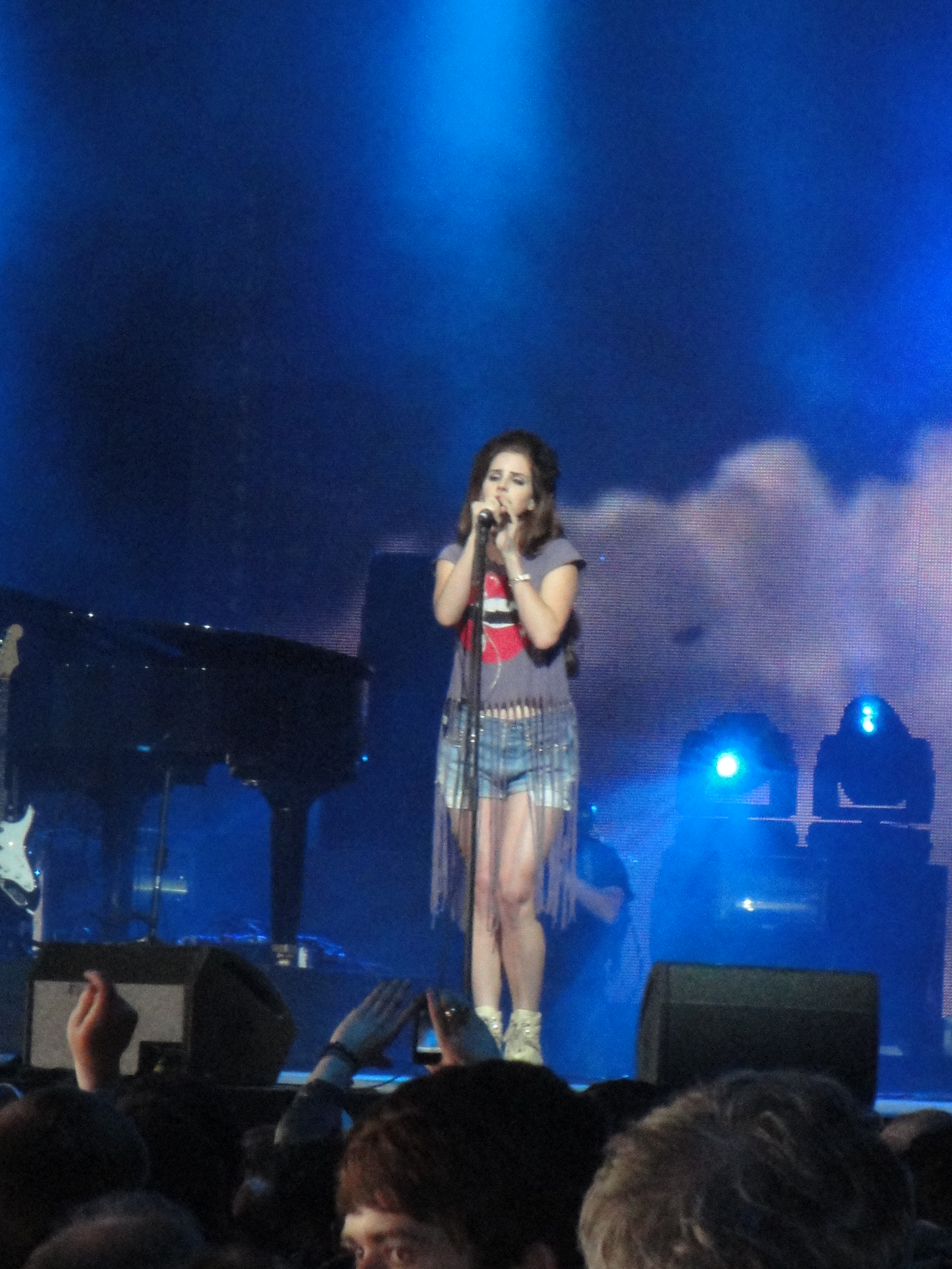 Lana Del Rey during a concert in New York, 2012.